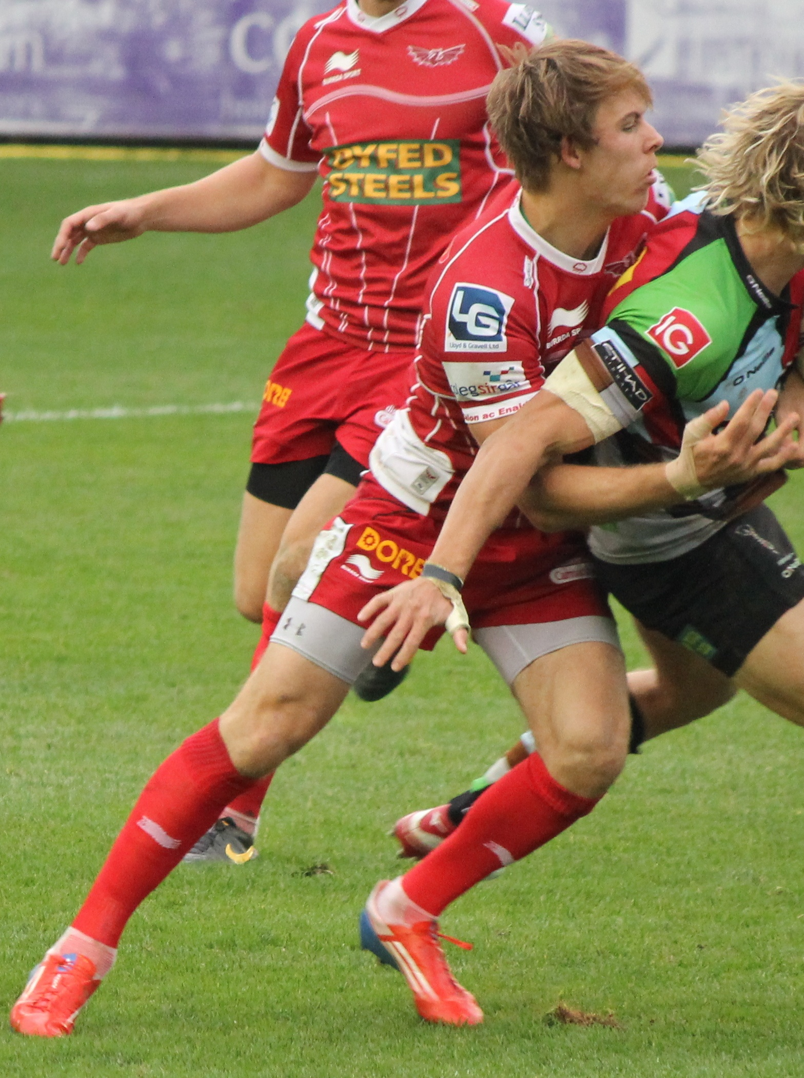 Matt Hopper being tackled Heineken Cup 2013-14, 12 October 2013, Twickenham Stoop. Match between: Harlequins - Scarlets